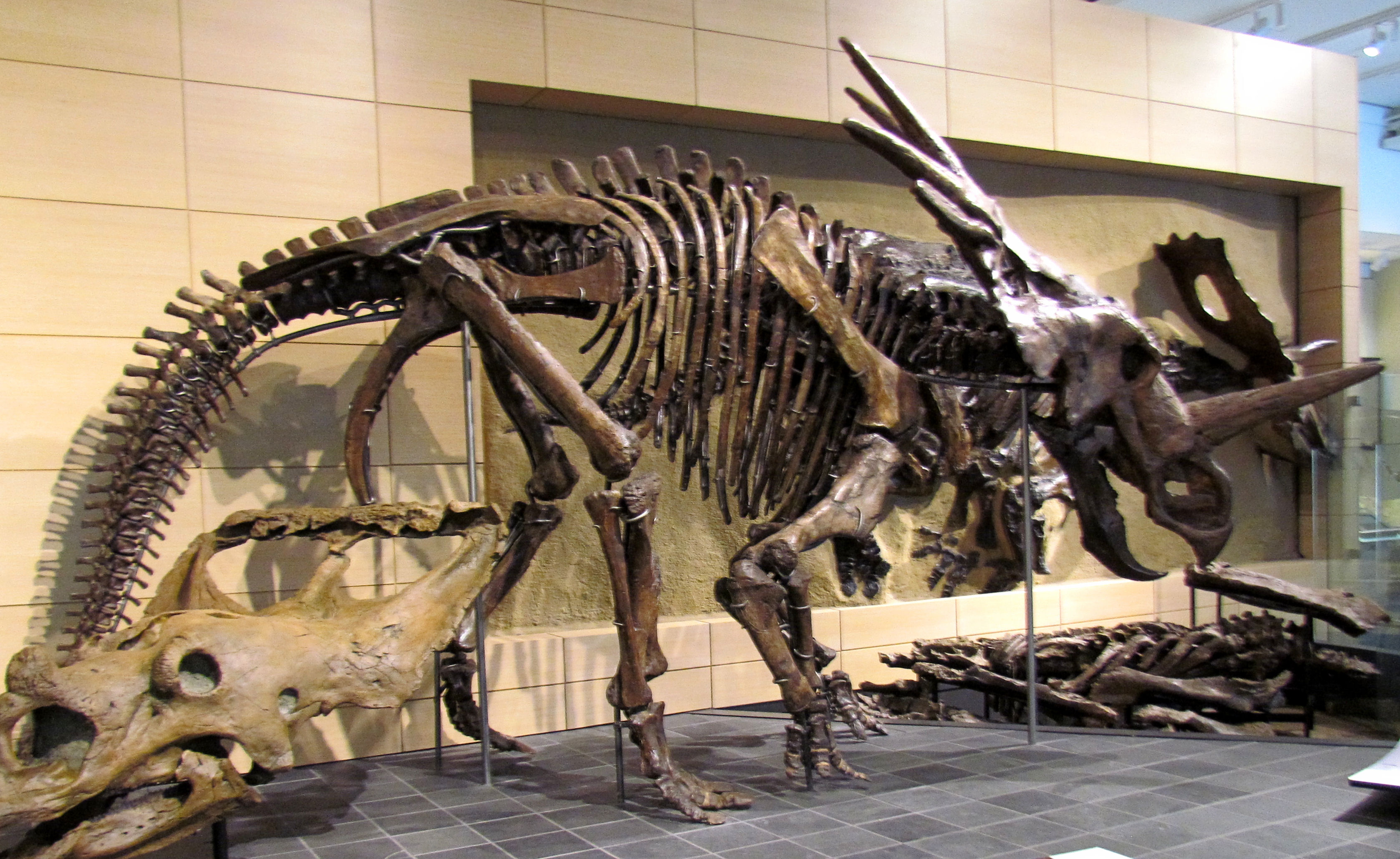 Styracosaurus skeleton at Canadian Museum of Nature, Ottawa, Ontario. The Vagaceratops irvinensis type specimen can be seen in the lower left corner.